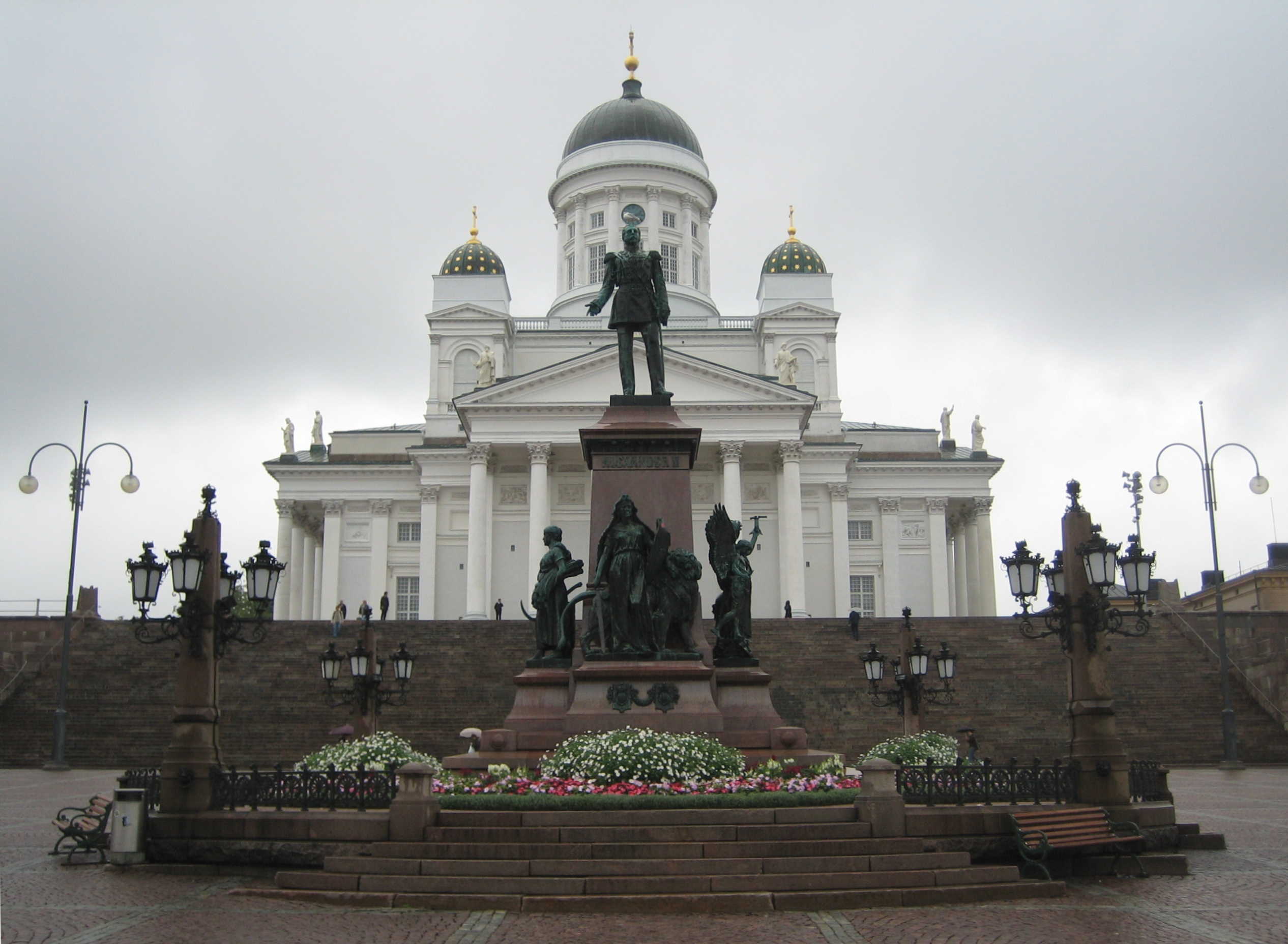 Sculpture of tsar Alexander II of Russia in Helsinki, Finland